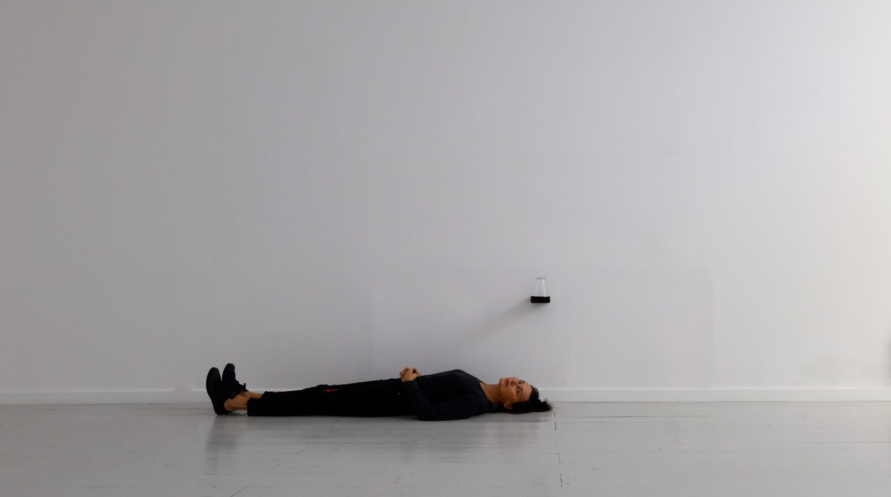 Tatiana Czekalska in Signum Gallery in Łódź, Poland during LIVE exhibition